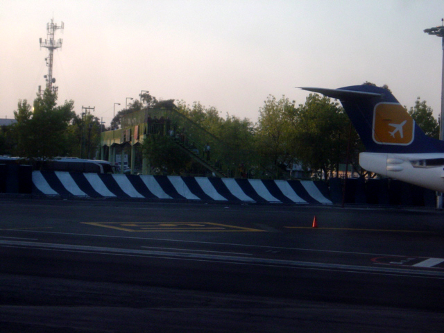 Photo taken by Bobak Ha'Eri. December 2005. Please observe license and properly cite in use outside Wikipedia.